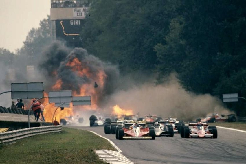 1978 Italian Grand Prix accident